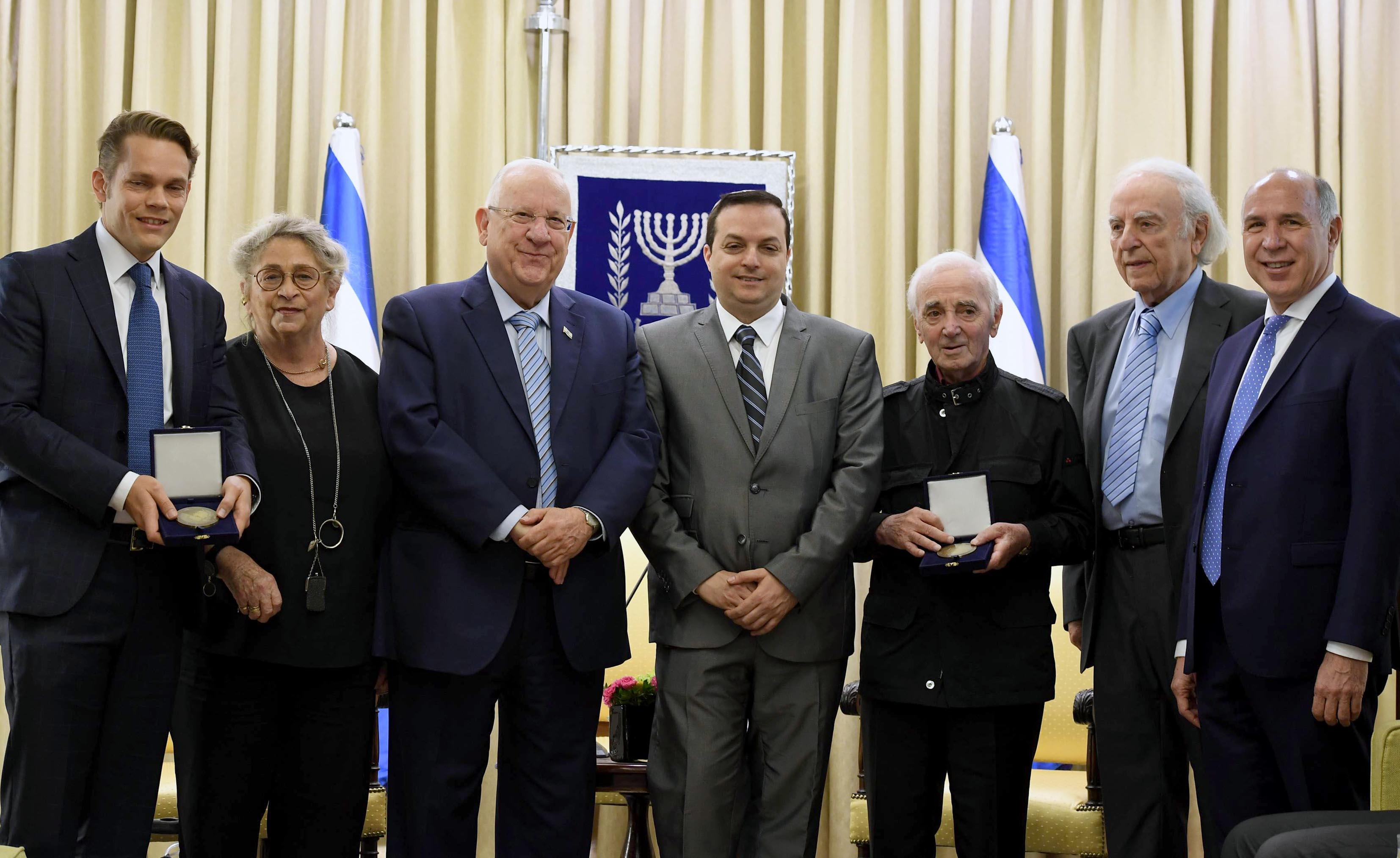 The President of Israel, Reuven Rivlin, hosts the singer Charles Aznavour at Beit HaNassi. Thursday, October 27, 2017. Photo Credit: Mark Neyman / GPO.